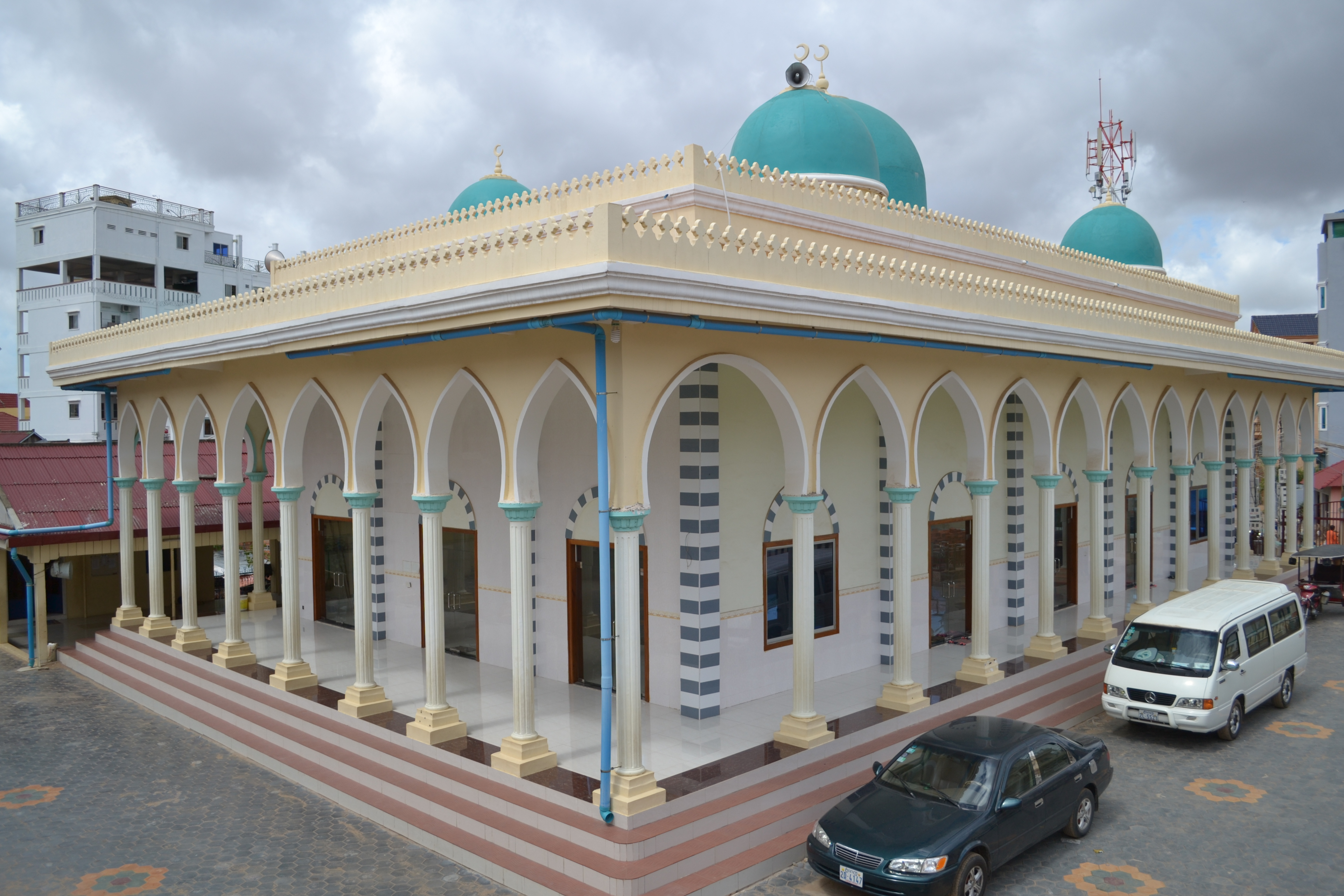 Outside view